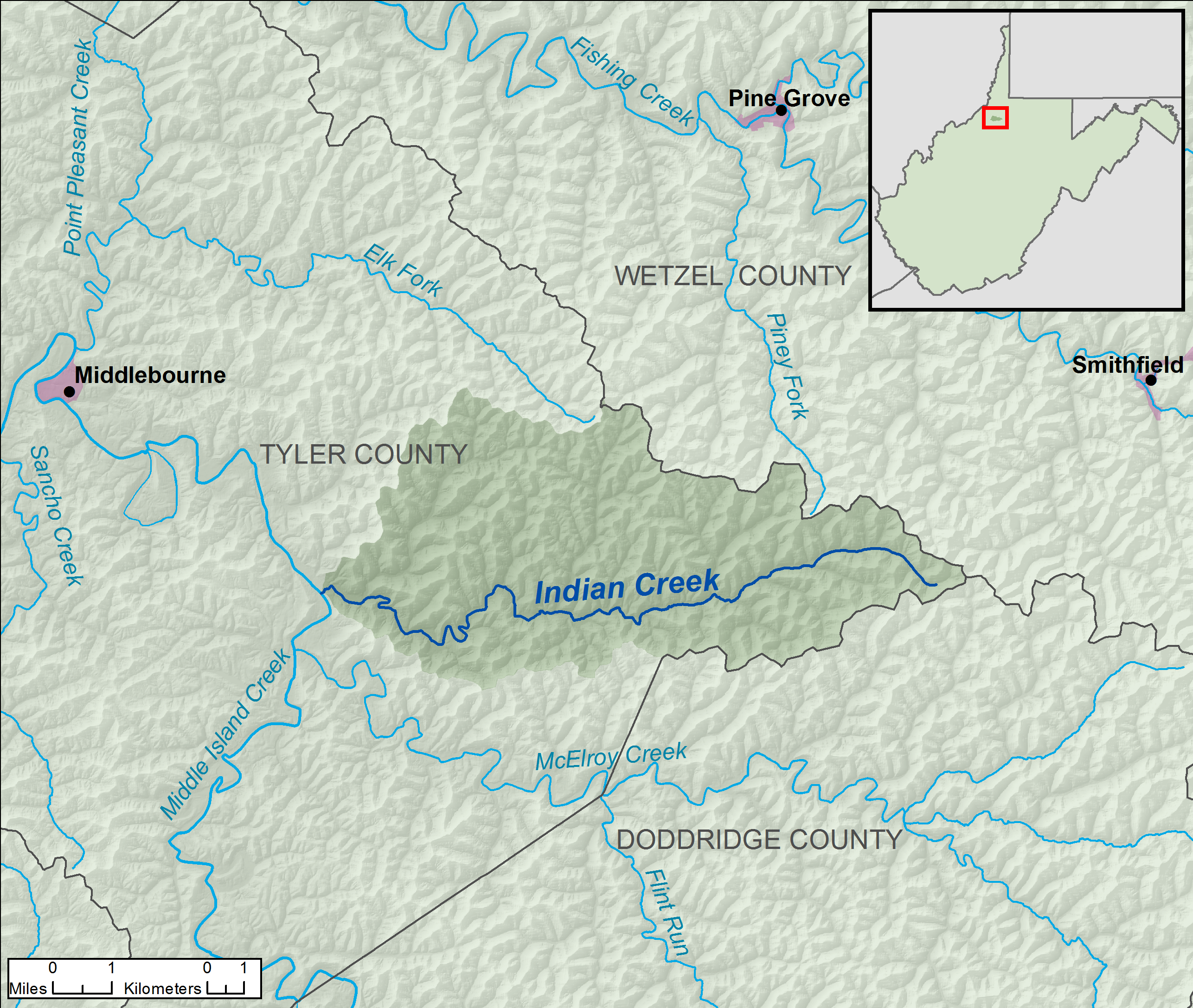 A map of Flint Run and its watershed (USGS HUC-12 code 050302010501), in Tyler County, West Virginia.